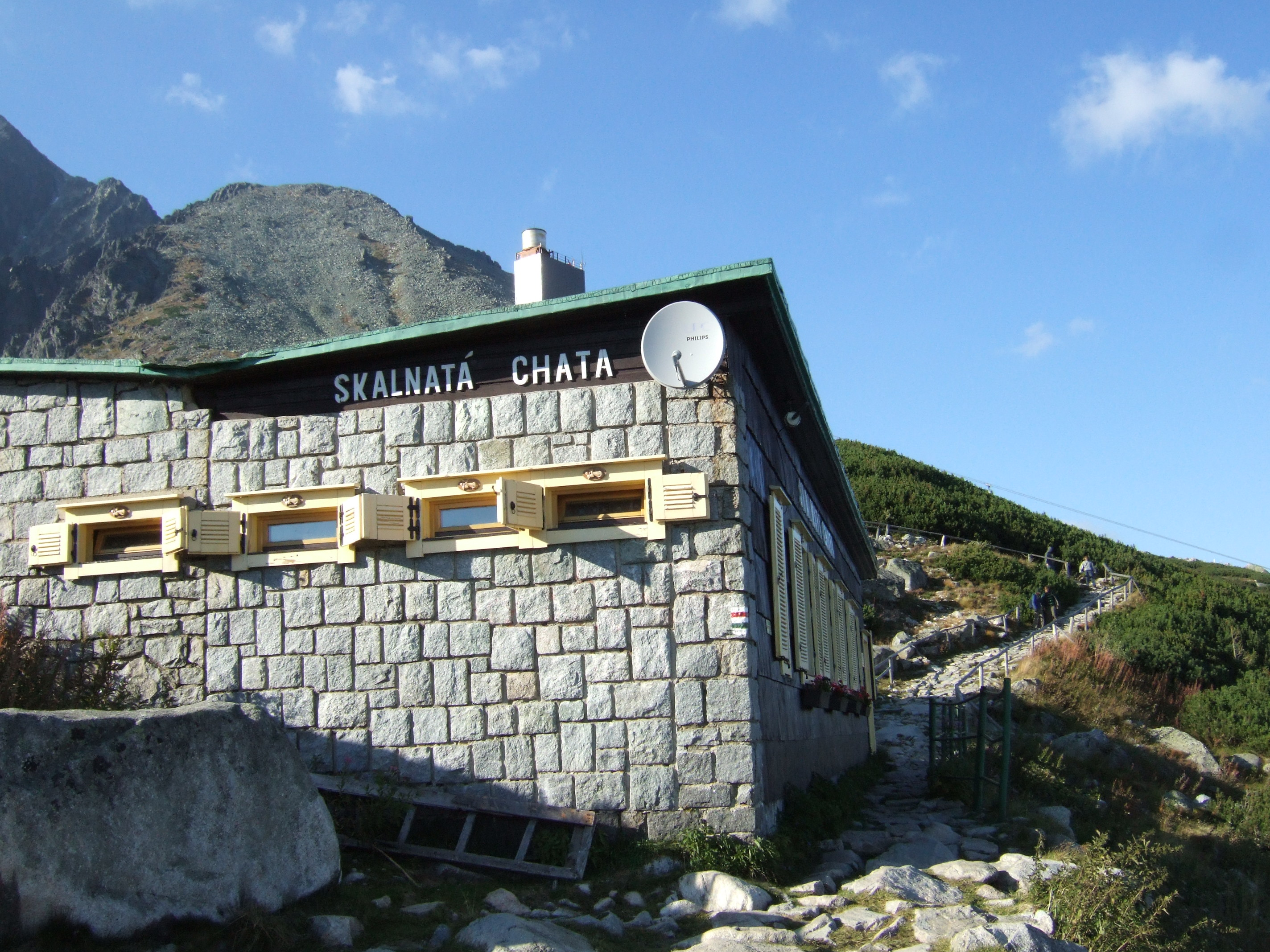 TheSkalnata Chata in the Slovakia. 1725 m altitude.